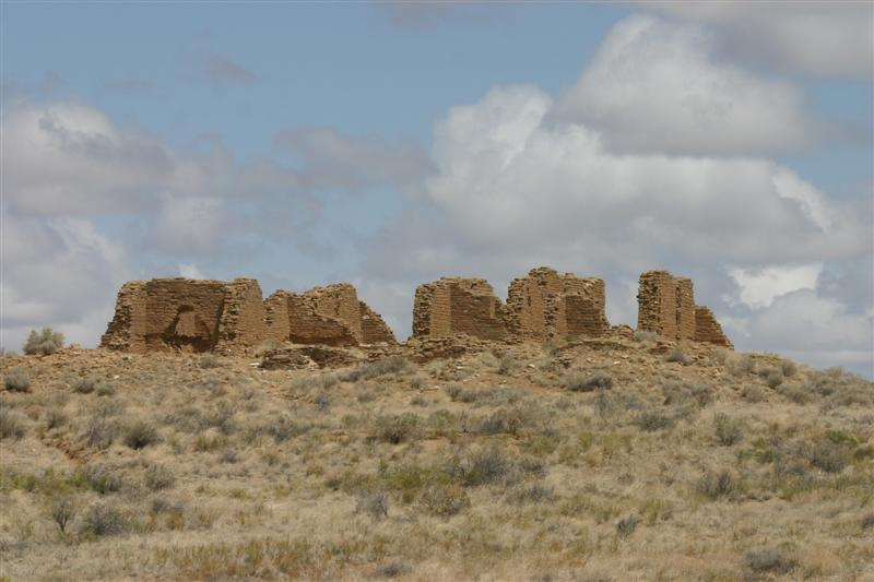 New Alto, Chaco Canyon, New Mexico, U. S. A.